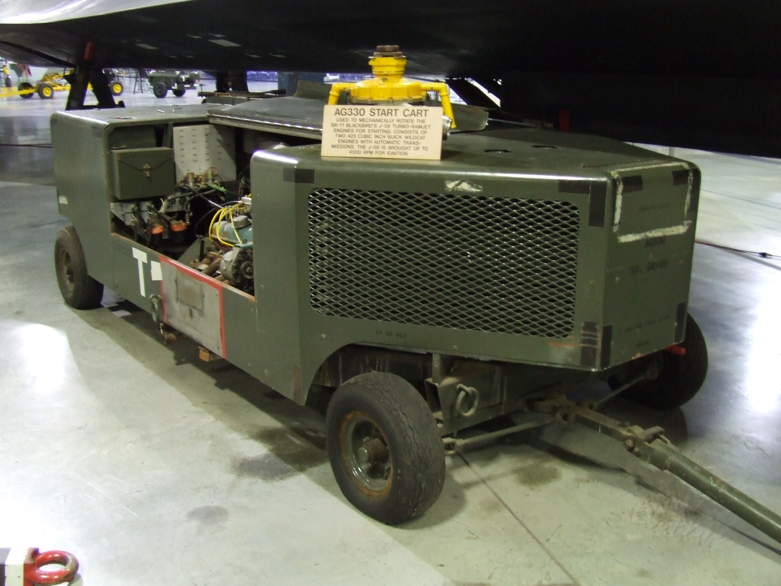 SR-71 Blackbird AG330 start cart, Hill Aerospace Museum, Utah Extended description "Used to mechanically rotate the SR-71's J58 turbo-ramjet engines for starting. Consists of two 425 cubic inch Buick Wildcat engines with automatic transmission. The J58 is brought up to 4500 rpm for ignition" - Hill Aerospace Museum